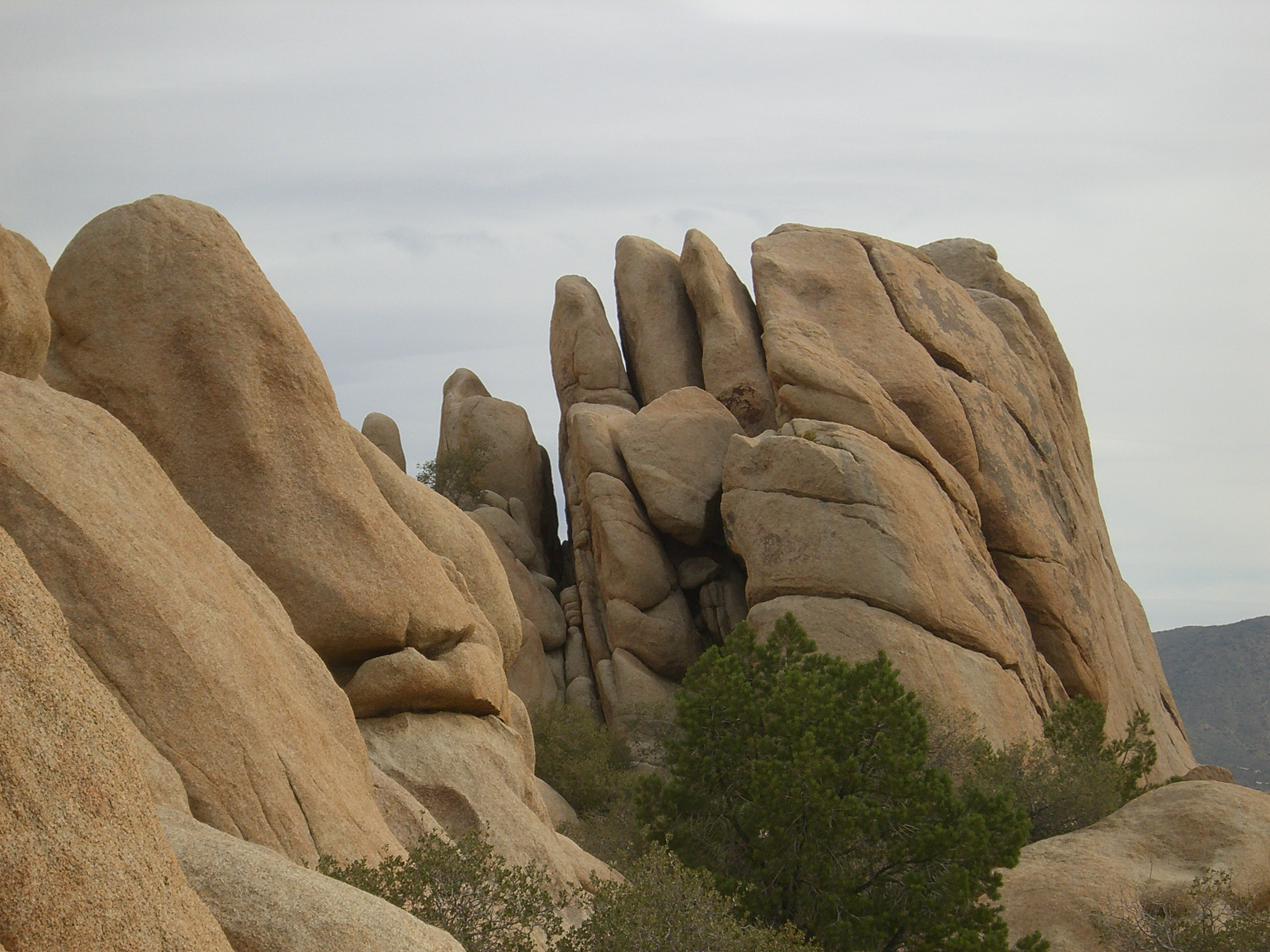 Joshua Tree National Park, California, USA